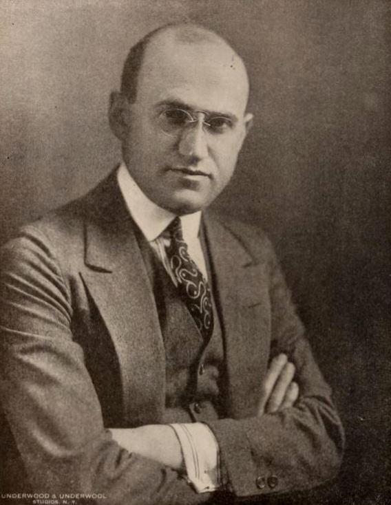 Film producer Samuel Goldwyn, on page 32 of the July 19, 1919 Exhibitors Herald.